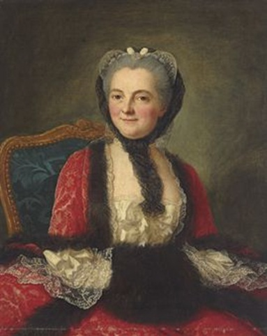 Portrait of a Woman, seated, in a red dress with a black muff